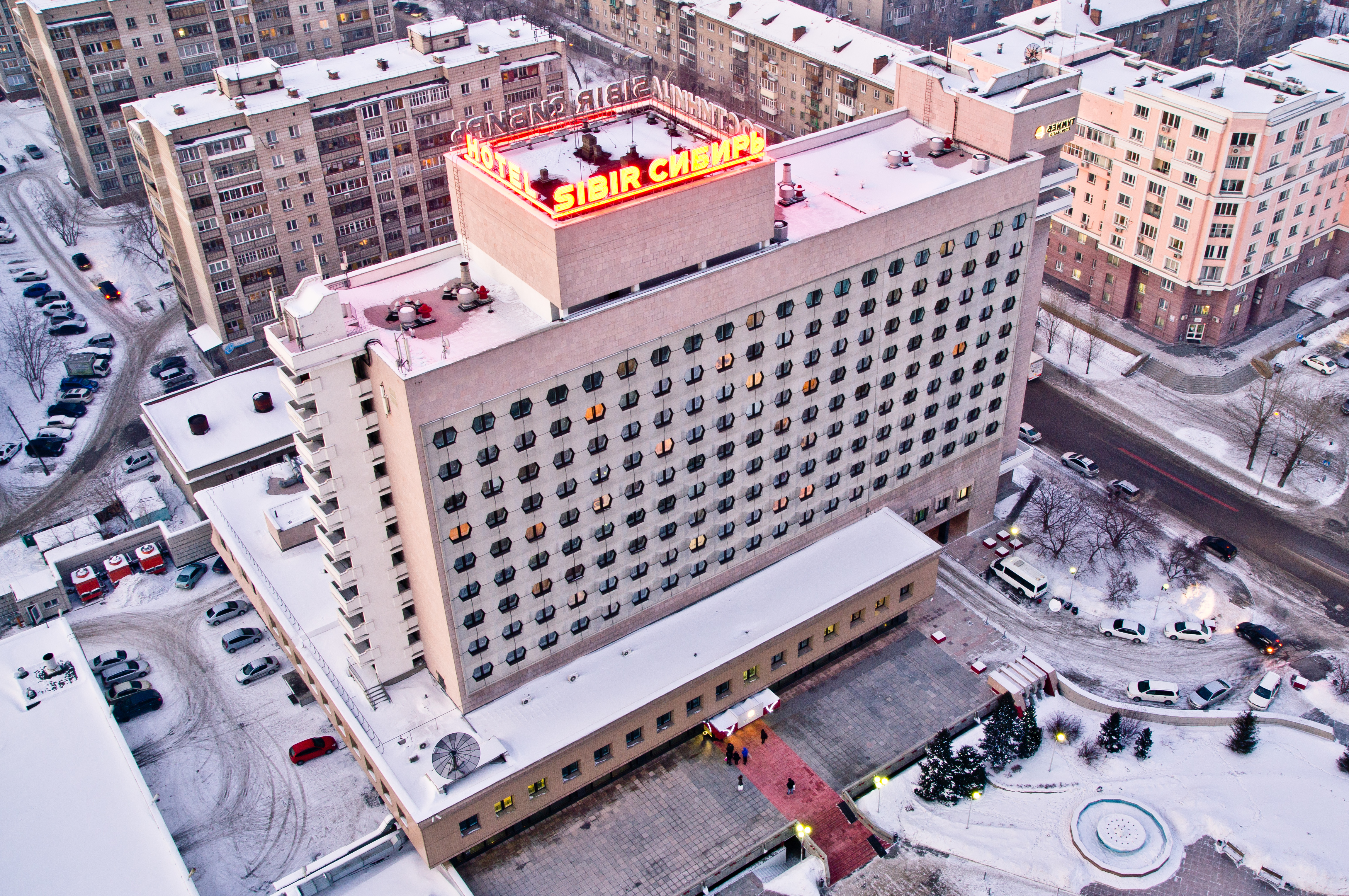 Azimut Hotel Siberia (Novosibirsk). Azimut Hotels chains